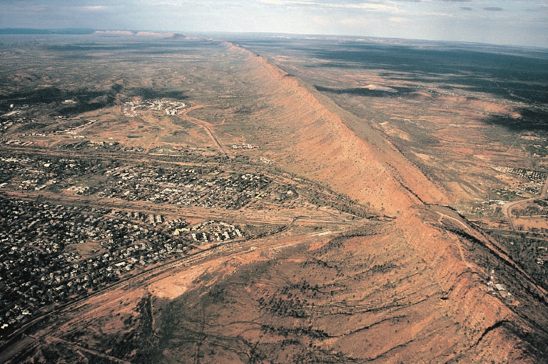 One of the larger settlements on the road that crosses Australia from north to south is Alice Springs. This view shows the transport links passing through a convenient gap in the ridge beside which the town has been built. The hostile, desert environment of the area can be seen clearly; for this town the most valuable resource is water.